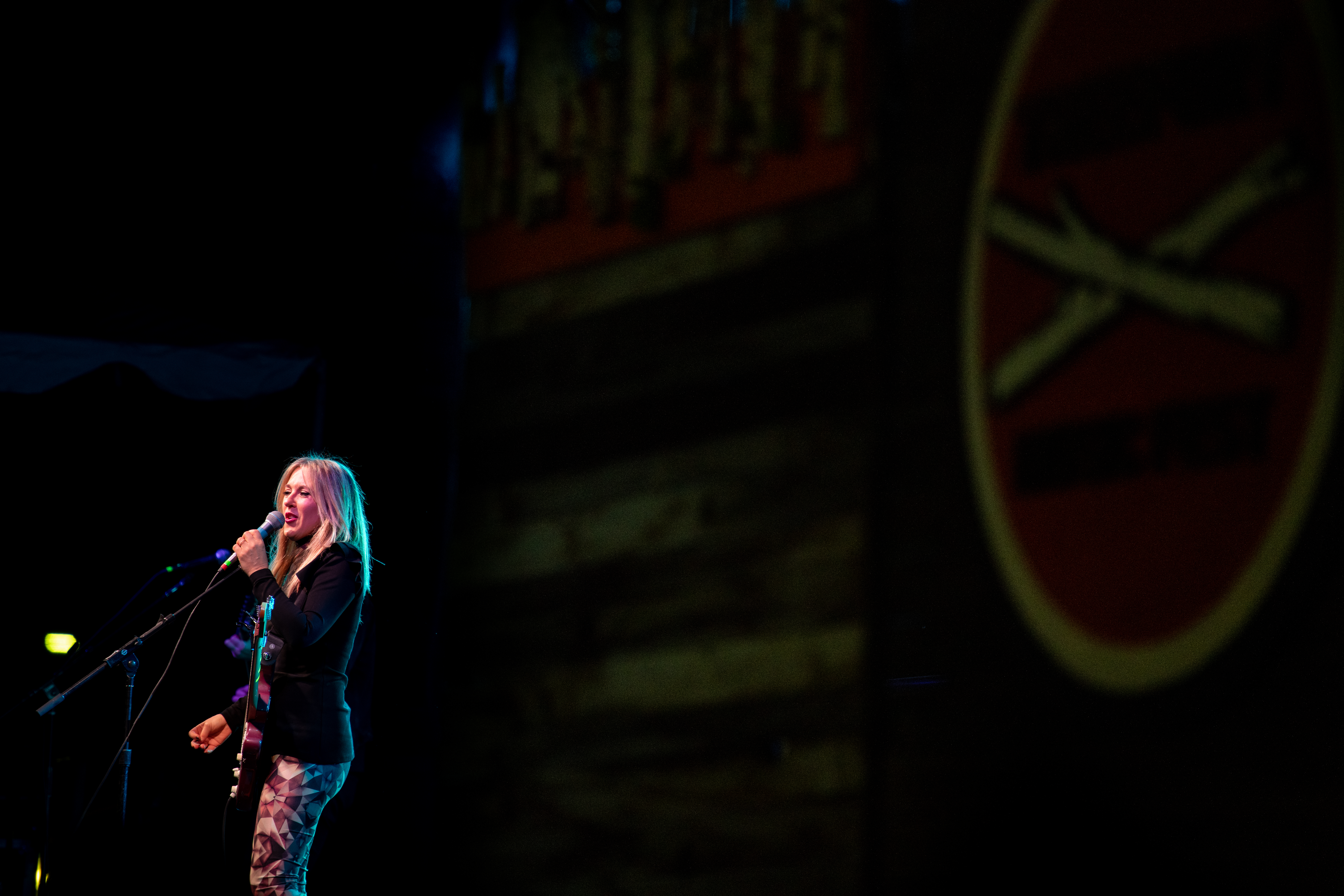 Liz Phair plays the main stage on Friday, March 22, 2019.